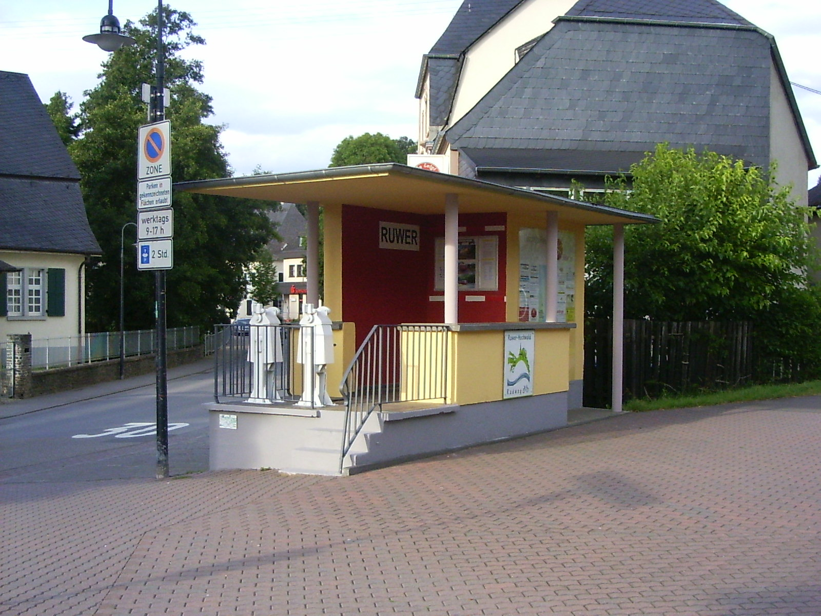 Former level crossing in Trier-Ruwer. Start of the Ruwer-Hochwald-Radweg.